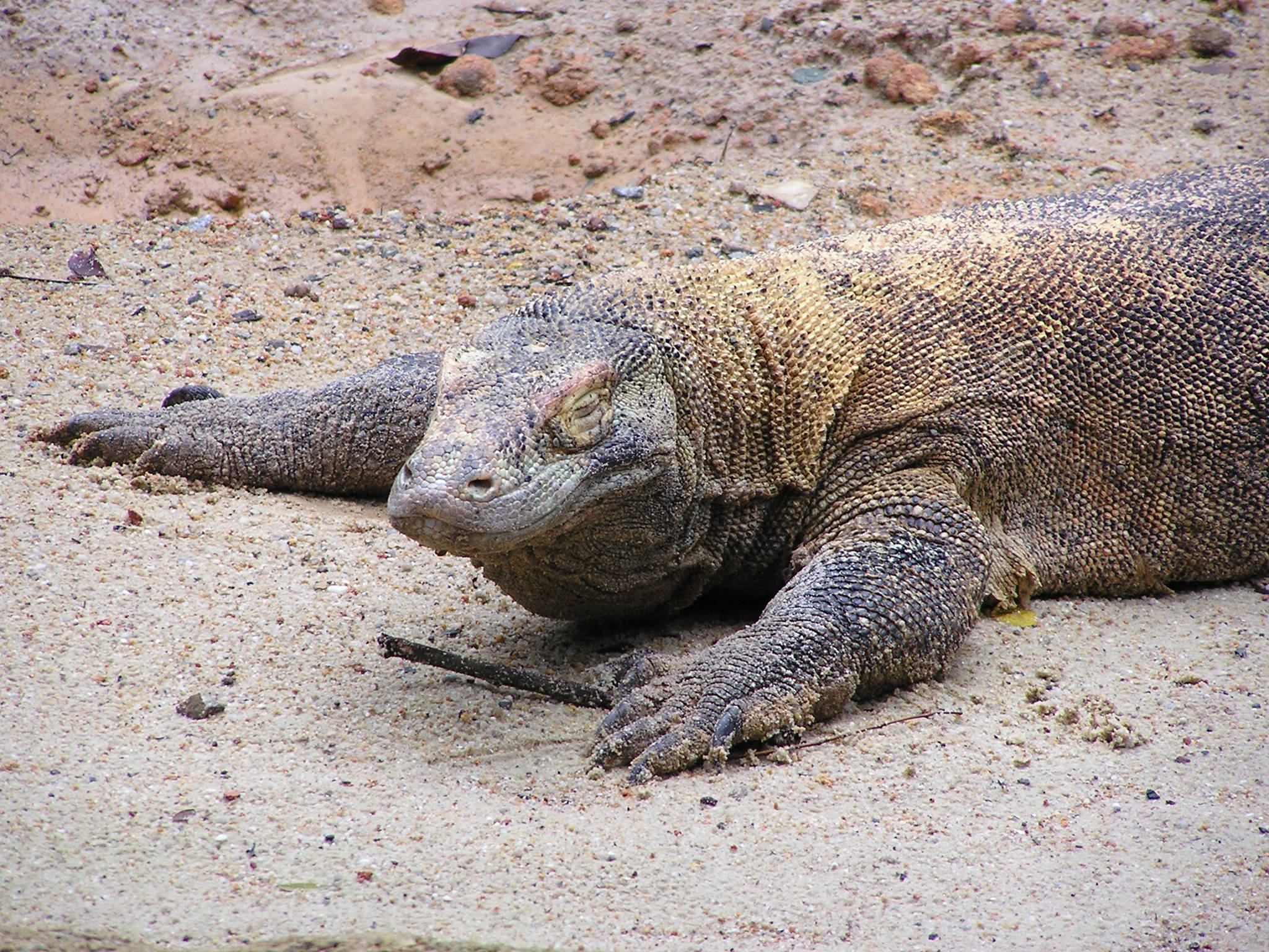 komodo dragon